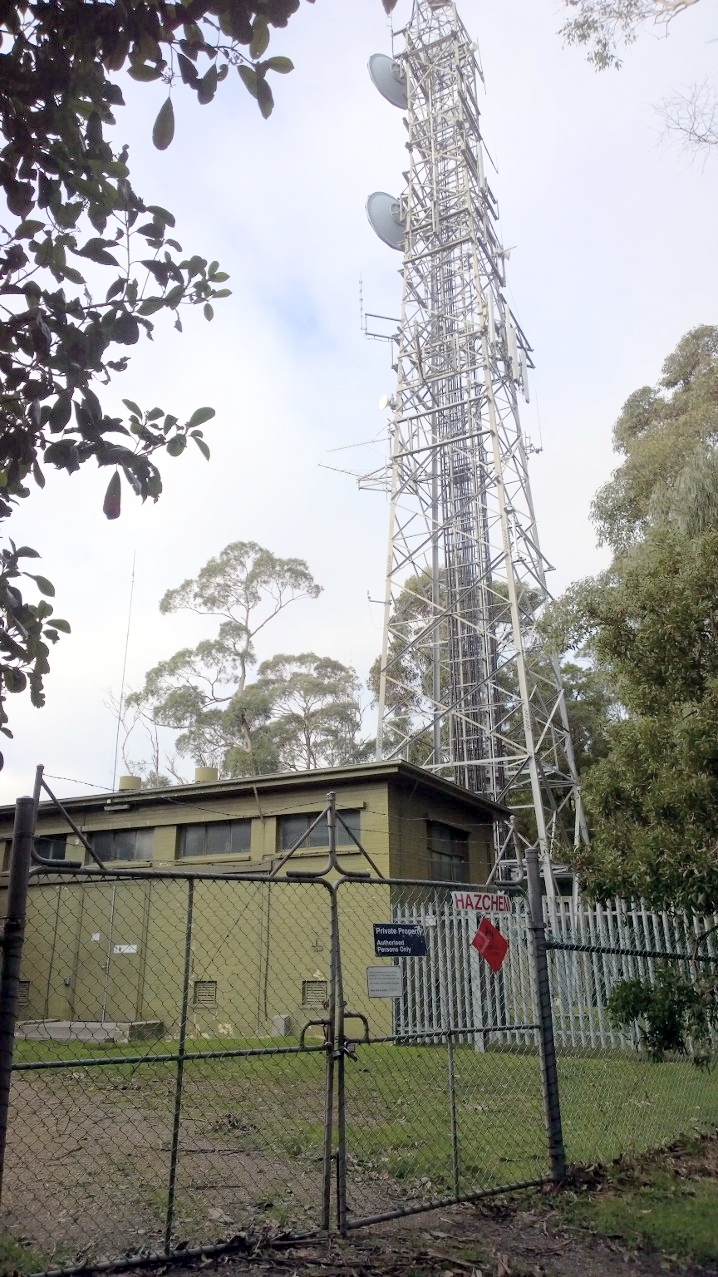 View of the physical summit of Arthurs Seat, Victoria, Australia. taken from the location of proposed Chairlift Summit station.